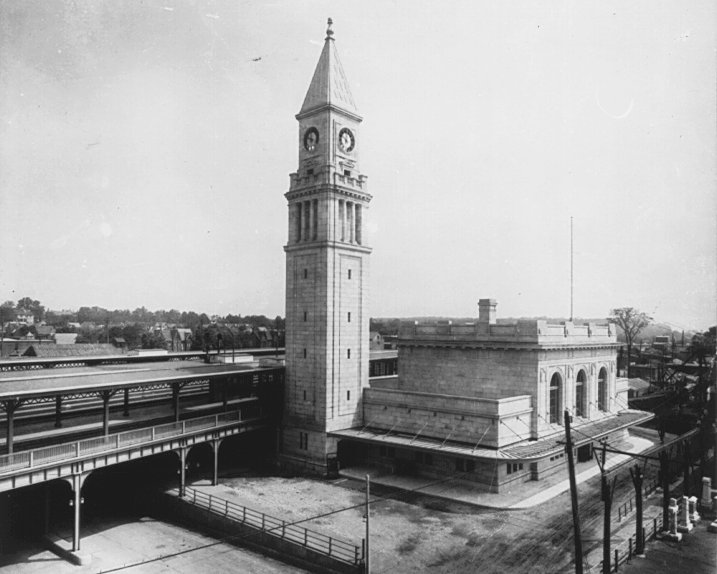 North Toronto C.P.R. Station, which opened in 1916. Still stands in 2007, and now serves as a Liquor Control Board of Ontario store.